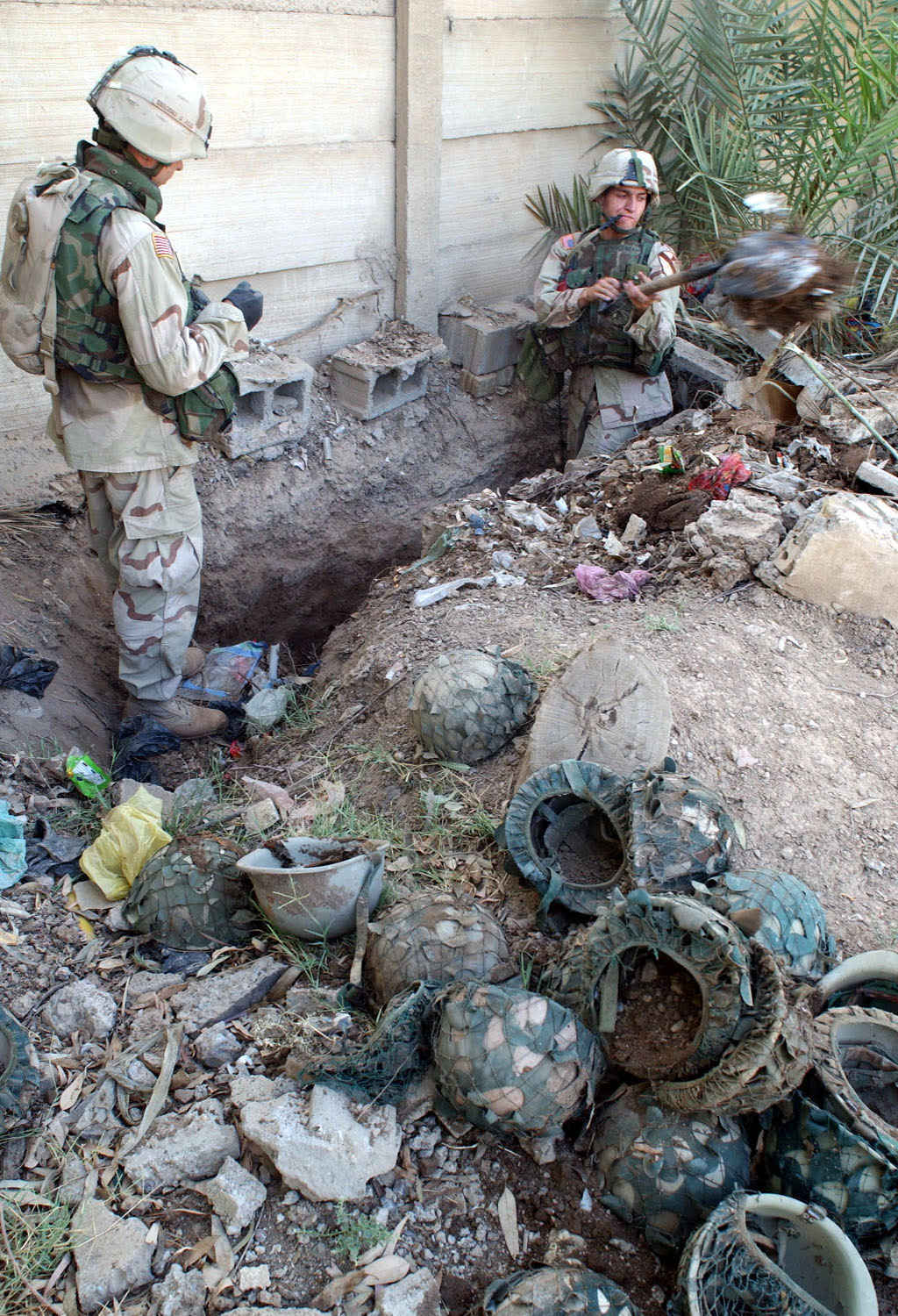 Spc. Donald Nachman, a combat engineer in Company B, 8th Engineer Battalion, digs into a hole during a search of an amusement park May 4. A squad from Bravo helped Troop C, 1st Squadron, 7th Cavalry Regiment, search the park for weapons caches.